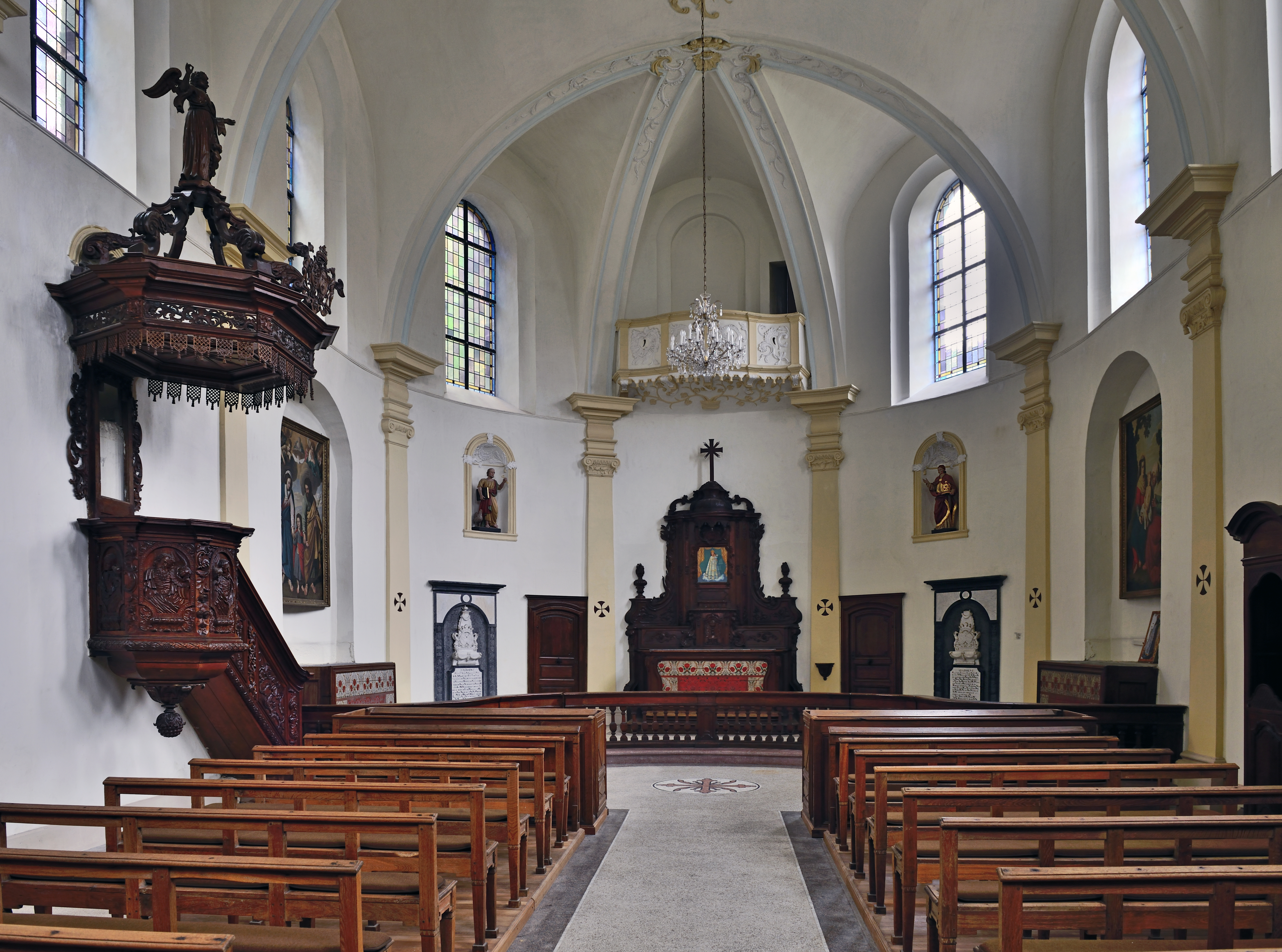 Interior of the Loreto Chapel in Clervaux,. Luxembourg. The tombstones of the count Albert Eugène de Lannoy († 1697) and Adrien Gérard de Lannoy († 1730) are seen at the left and right side, respectively.